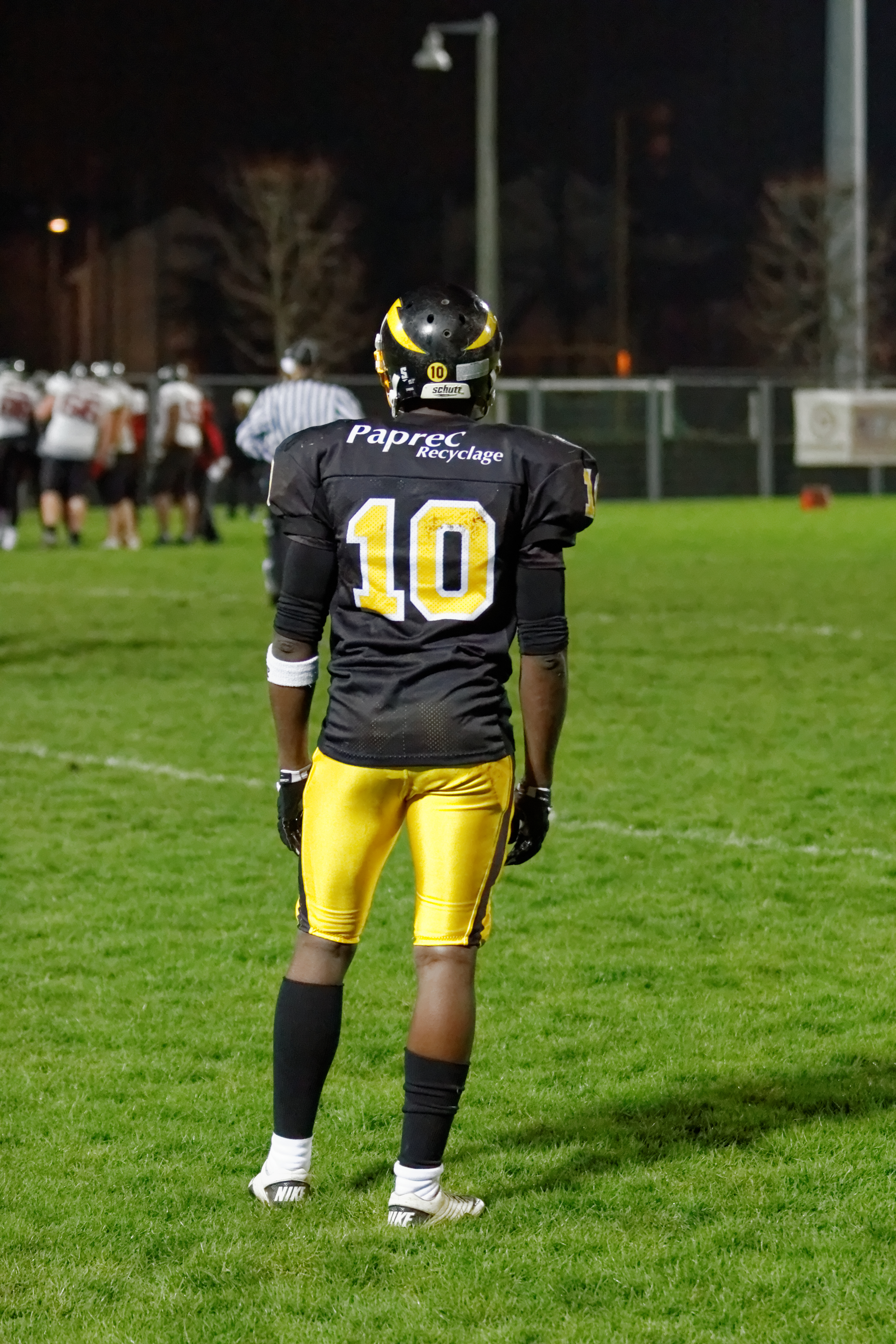 Flash vs Molosses, February 16th, 2013. Patrick Couton.